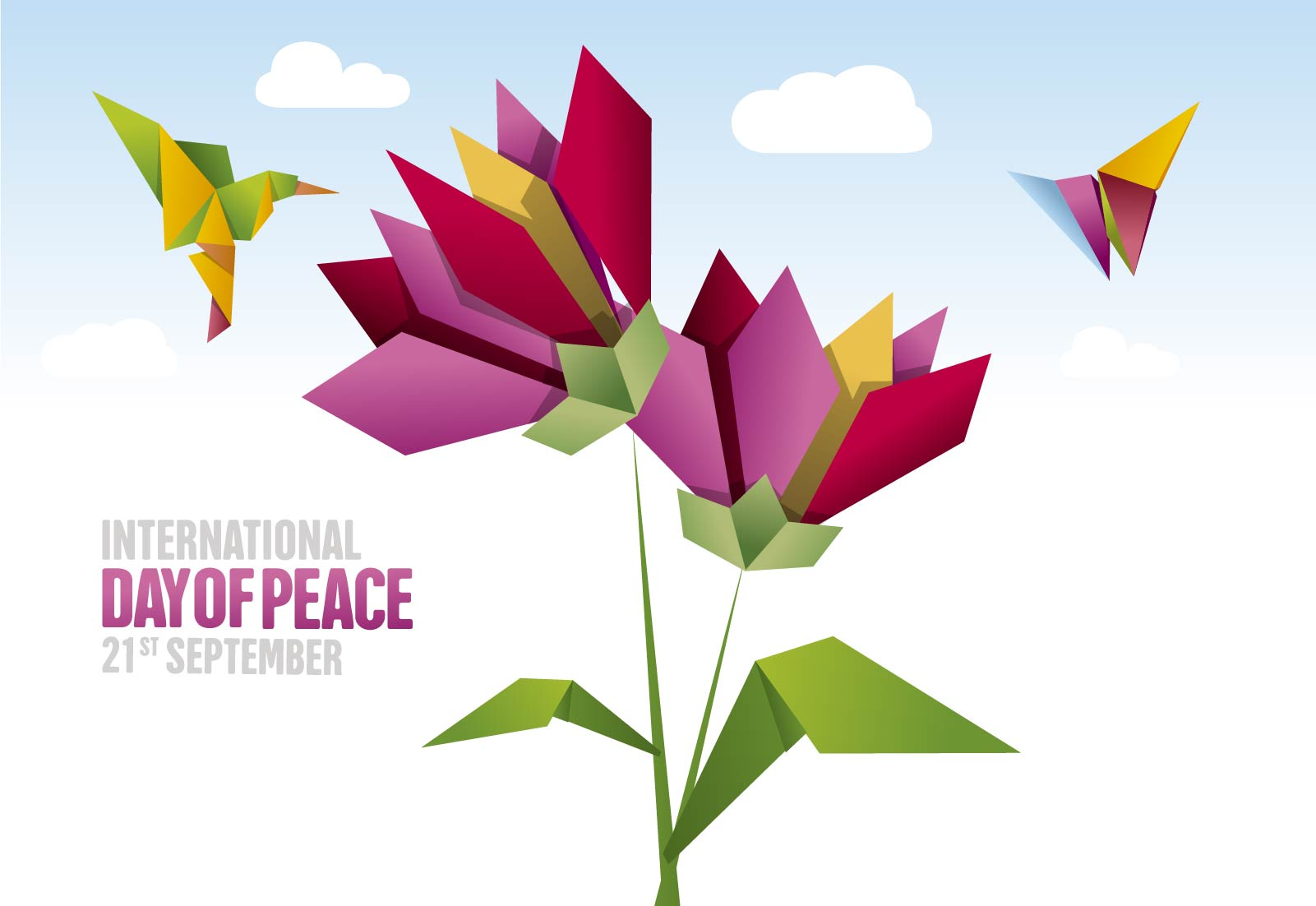 nternational Day of Peace design featuring origami flowers and birds. Design also includes text that says International Day of Peace 21st September.